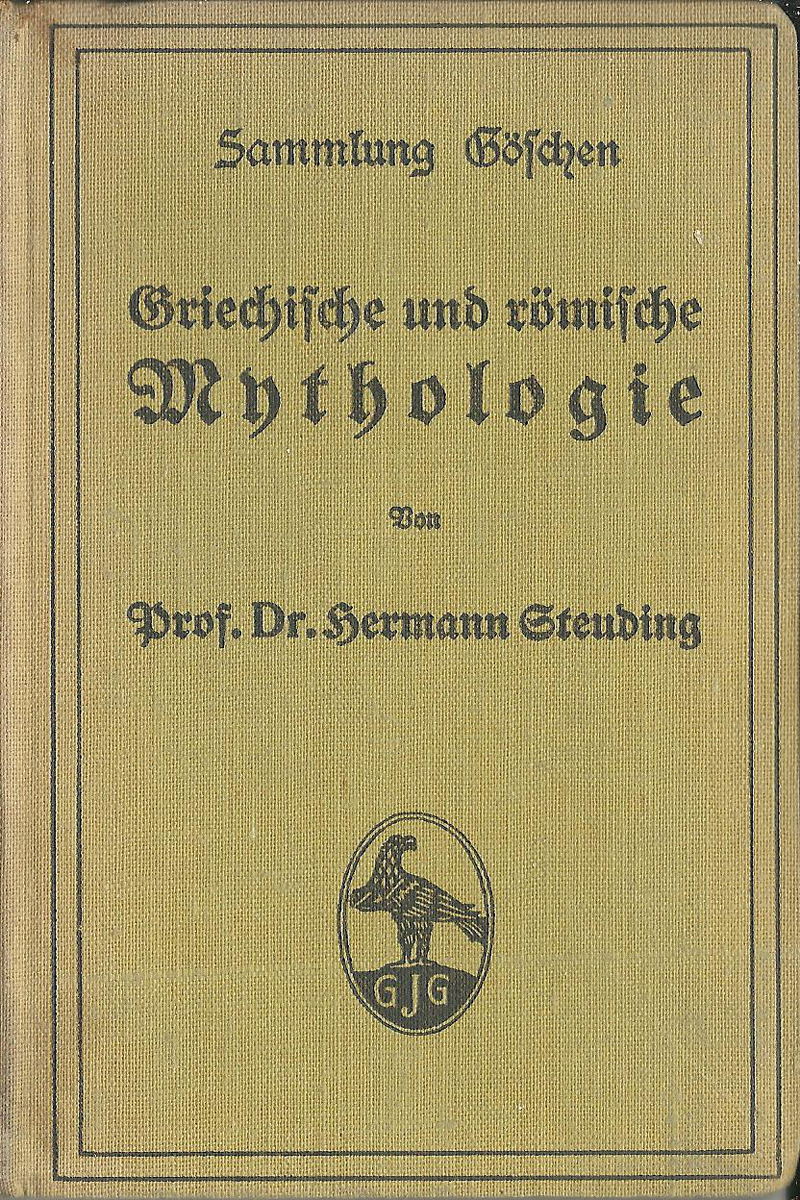 Front cover of Hermann Steuding's book Griechische und römische Mythologie (Greek and Roman mythology), Volume 27 of the Goeschen collection